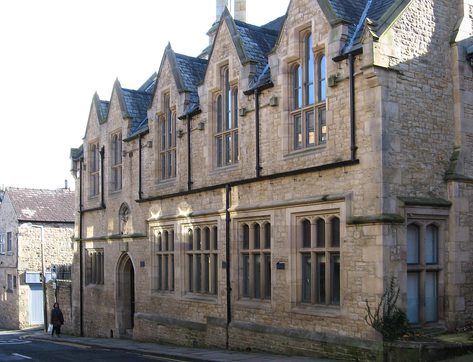 Photograph of the former Windermere House, Lancaster